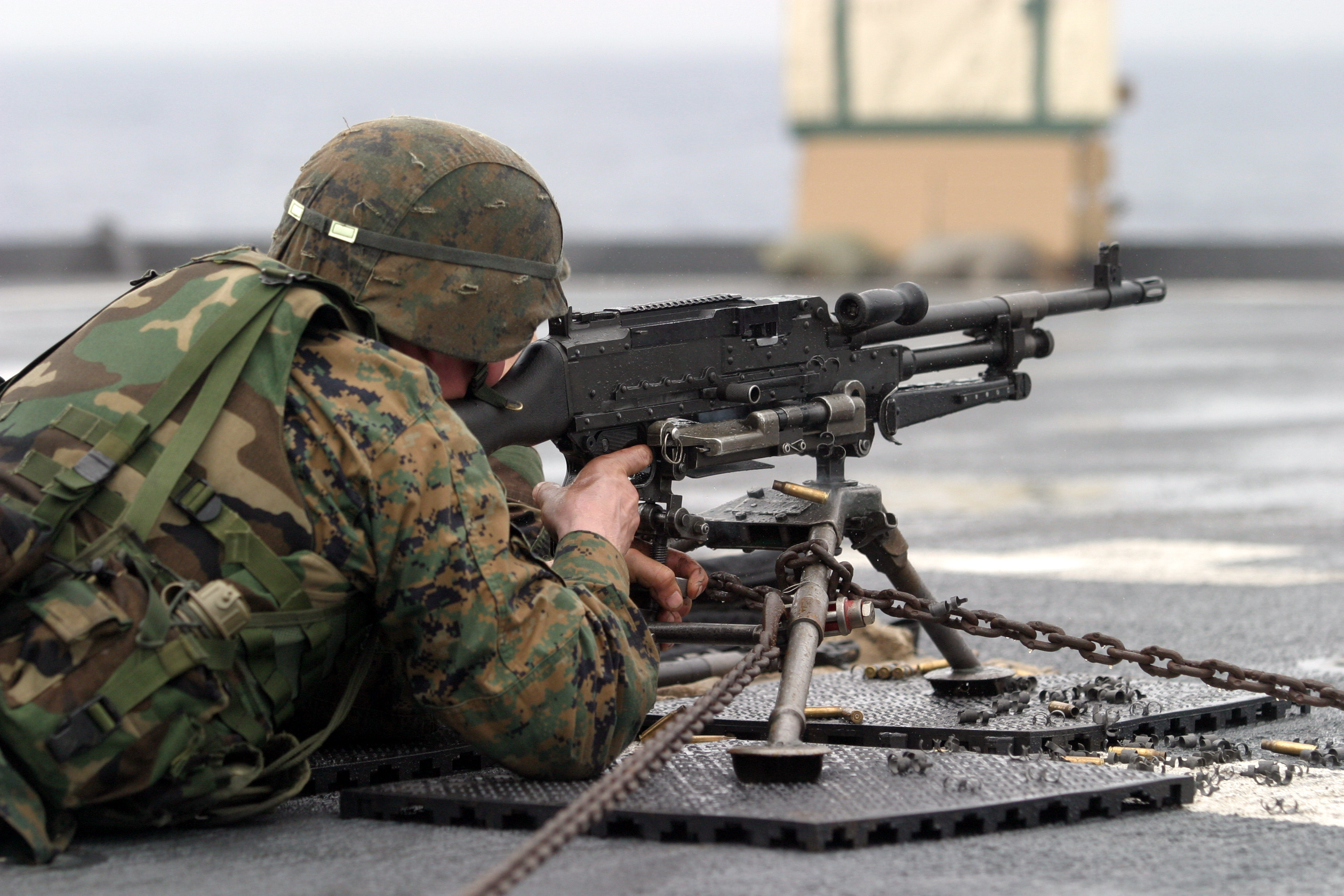 Lance Cpl. Bob Schulz fires a M-240G 7.62mm medium machine gun from the fight deck of the amphibious dock landing ship USS Fort McHenry (LSD 43). The Marines are currently in route to participate in exercise Balikatan 2004 at Subic Bay, Philippines. Balikatan 2004 is a regularly scheduled exercise that will improve interoperability, increase readiness and continue professional relationships between the U.S. Armed Forces and the Armed Forces of the Philippines.